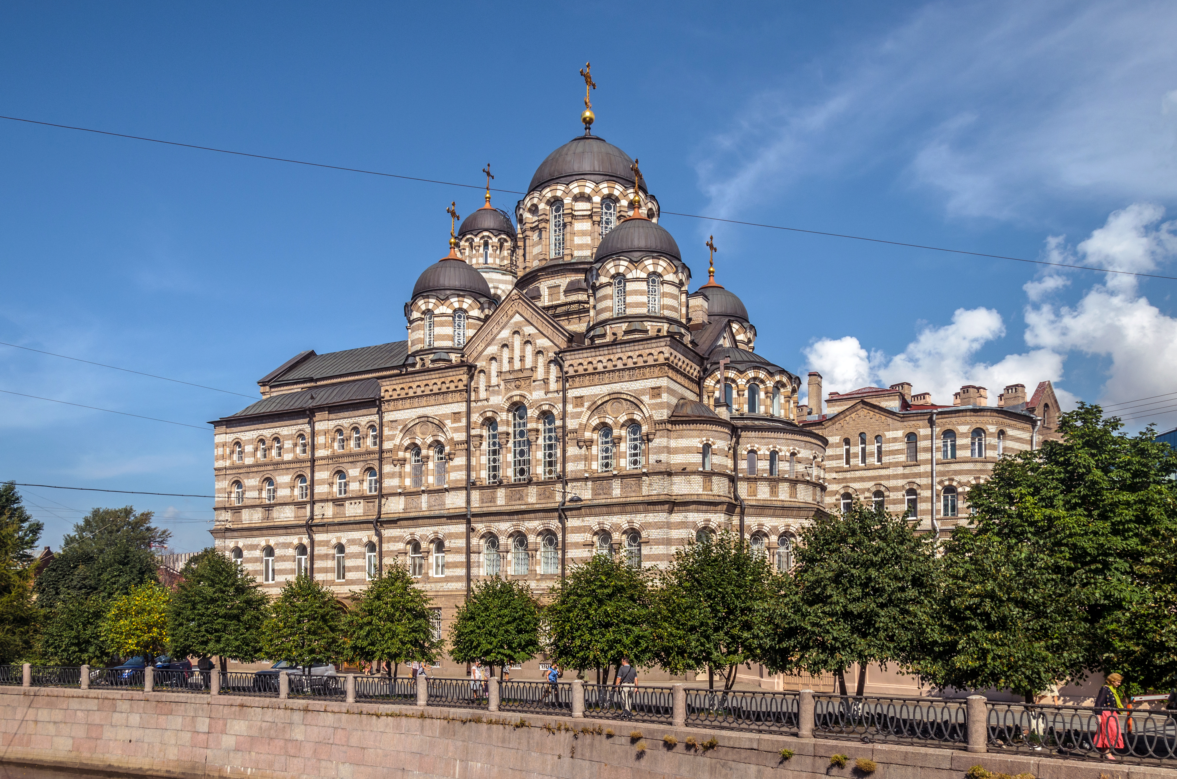 Ioannovsky Convent in Saint Petersburg